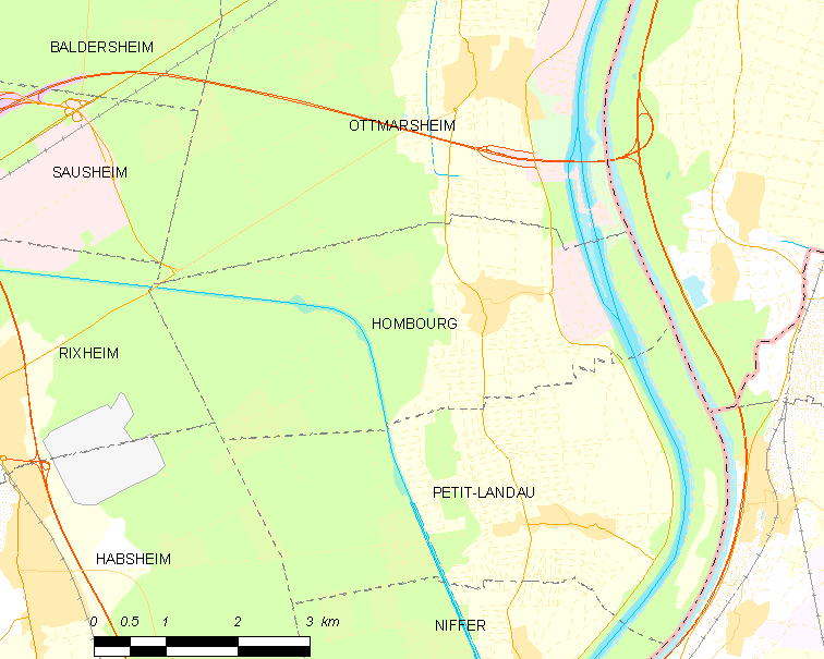 Map of French municipality